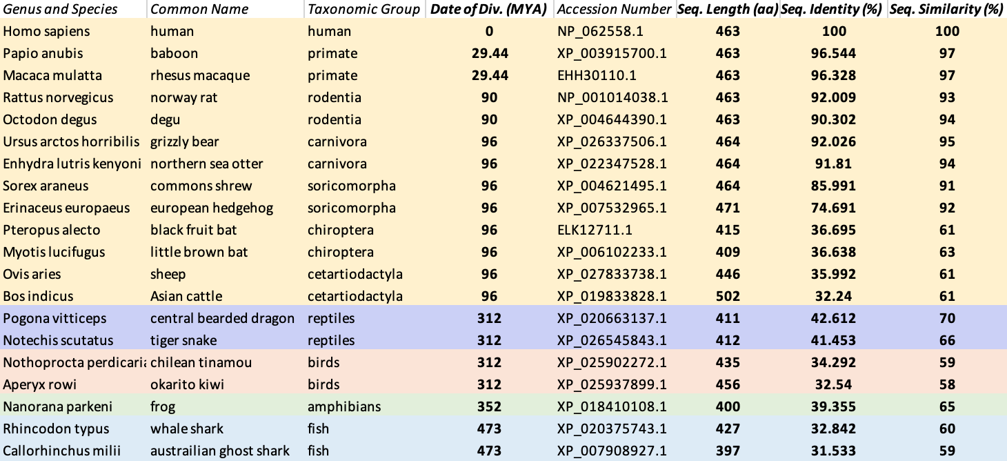 updated orthologous space for IRGC